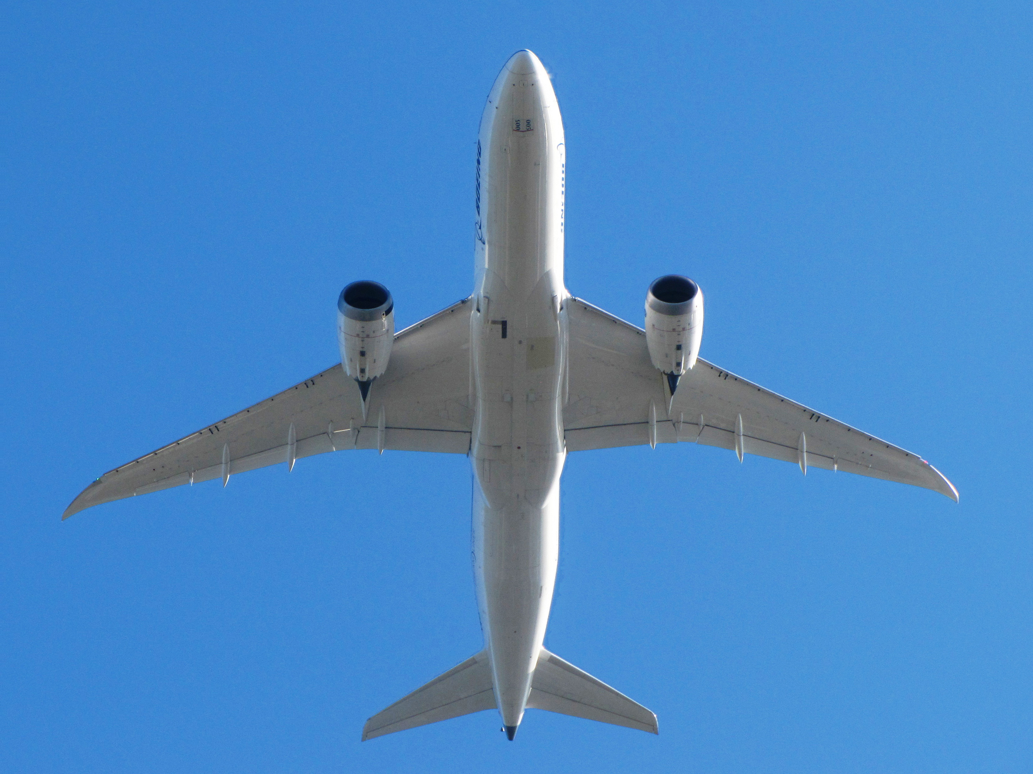 Boeing Boeing 787-800 King County International Airport